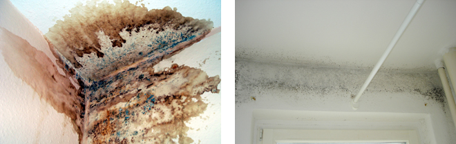 Water damages in buildings